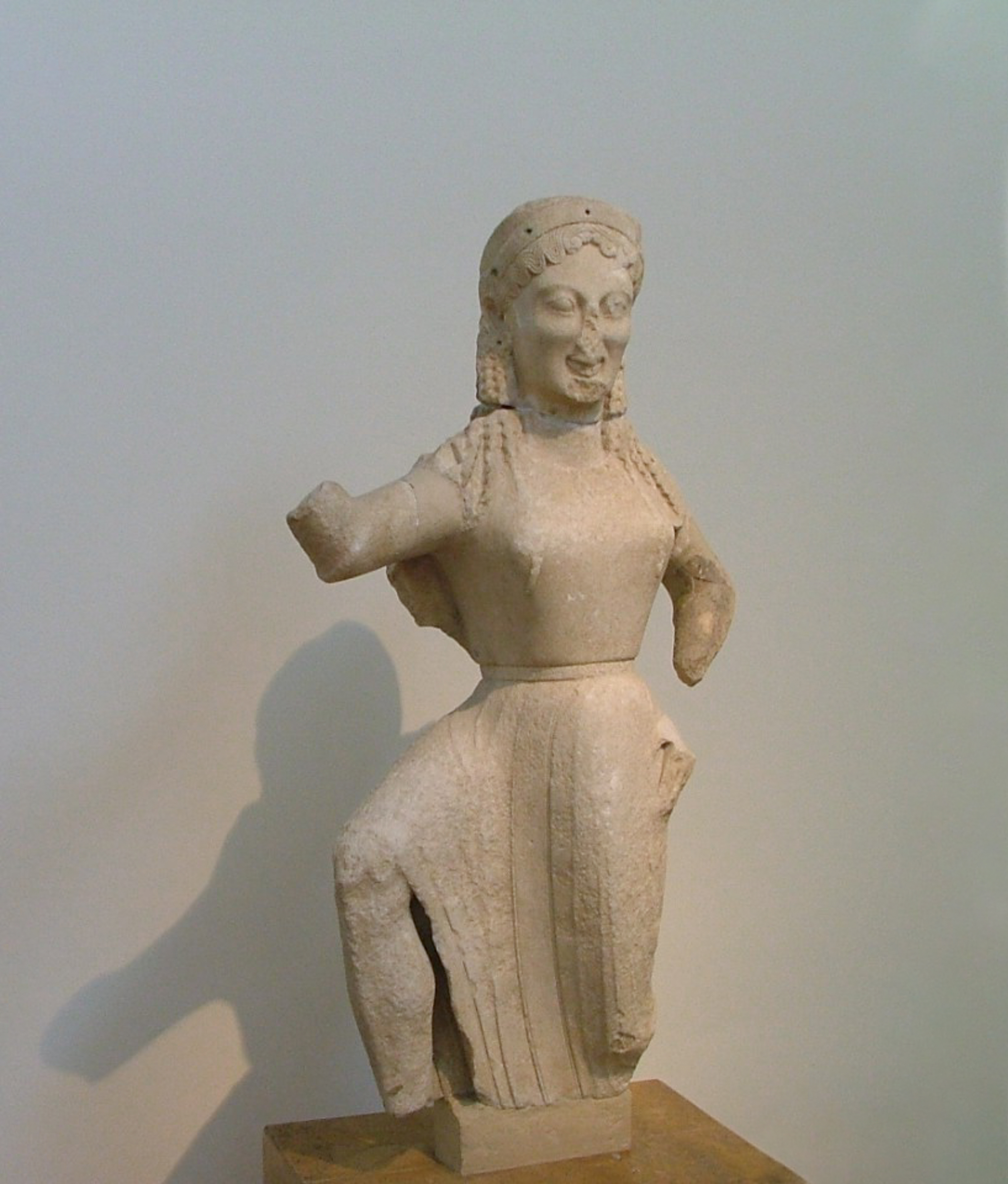 Statue of Nike running to the right. She wears a peplos and a chiton. On her head she wears a stephane, to which metal ornaments were attached. Holes on the ears also means the original presence of metal earrings. The earliest known stone free-standing statue of a Nike.